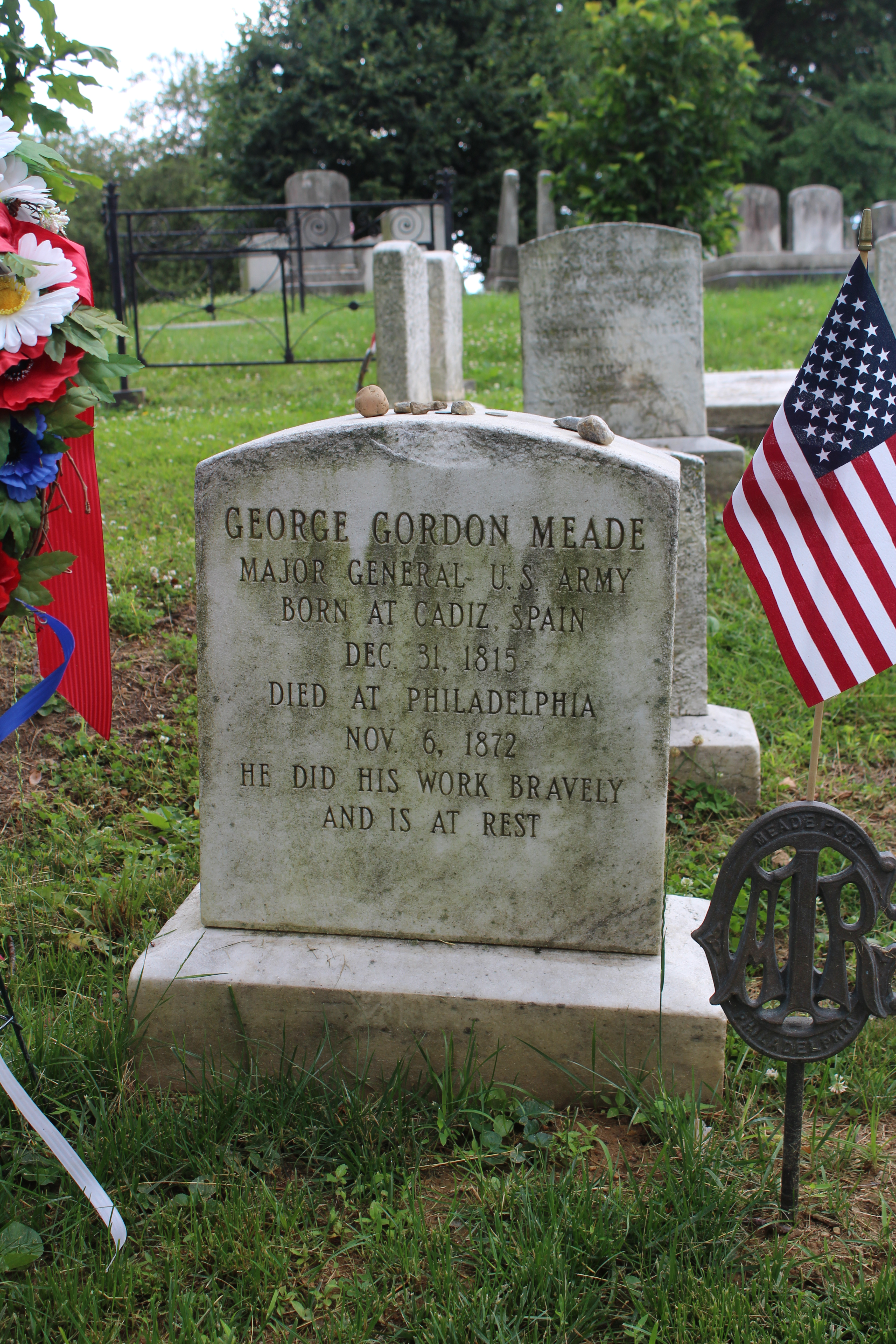 George Meade tombstone in Laurel Hill Cemetery. Photo taken June 2020.